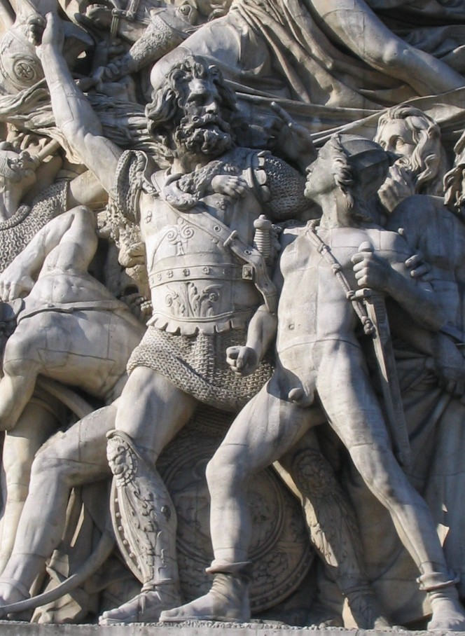 Eraste and Eromene. Detail of La Marseillaise by François Rude on the Arc de Triomphe, Paris. Photo taken November 23, 2004.